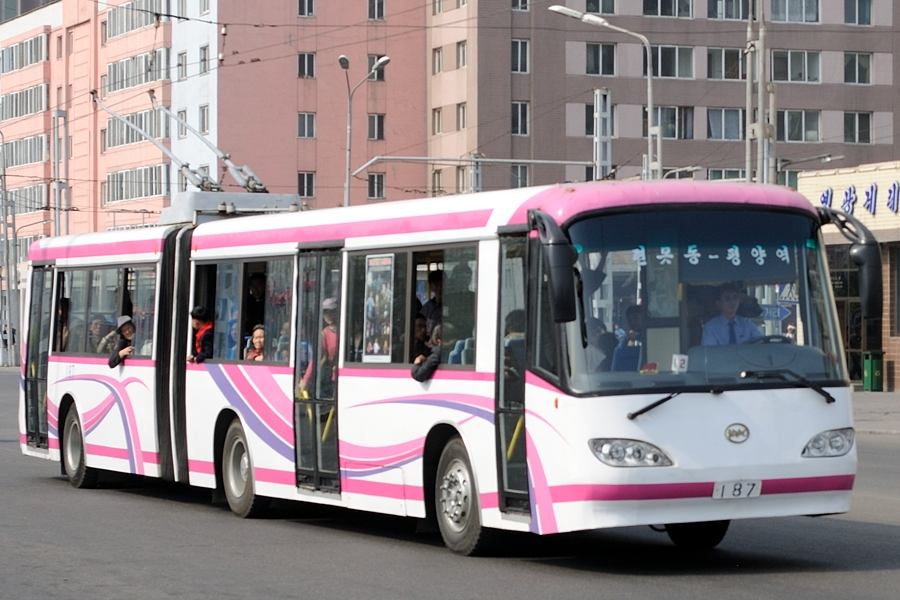 Chollima-091 187